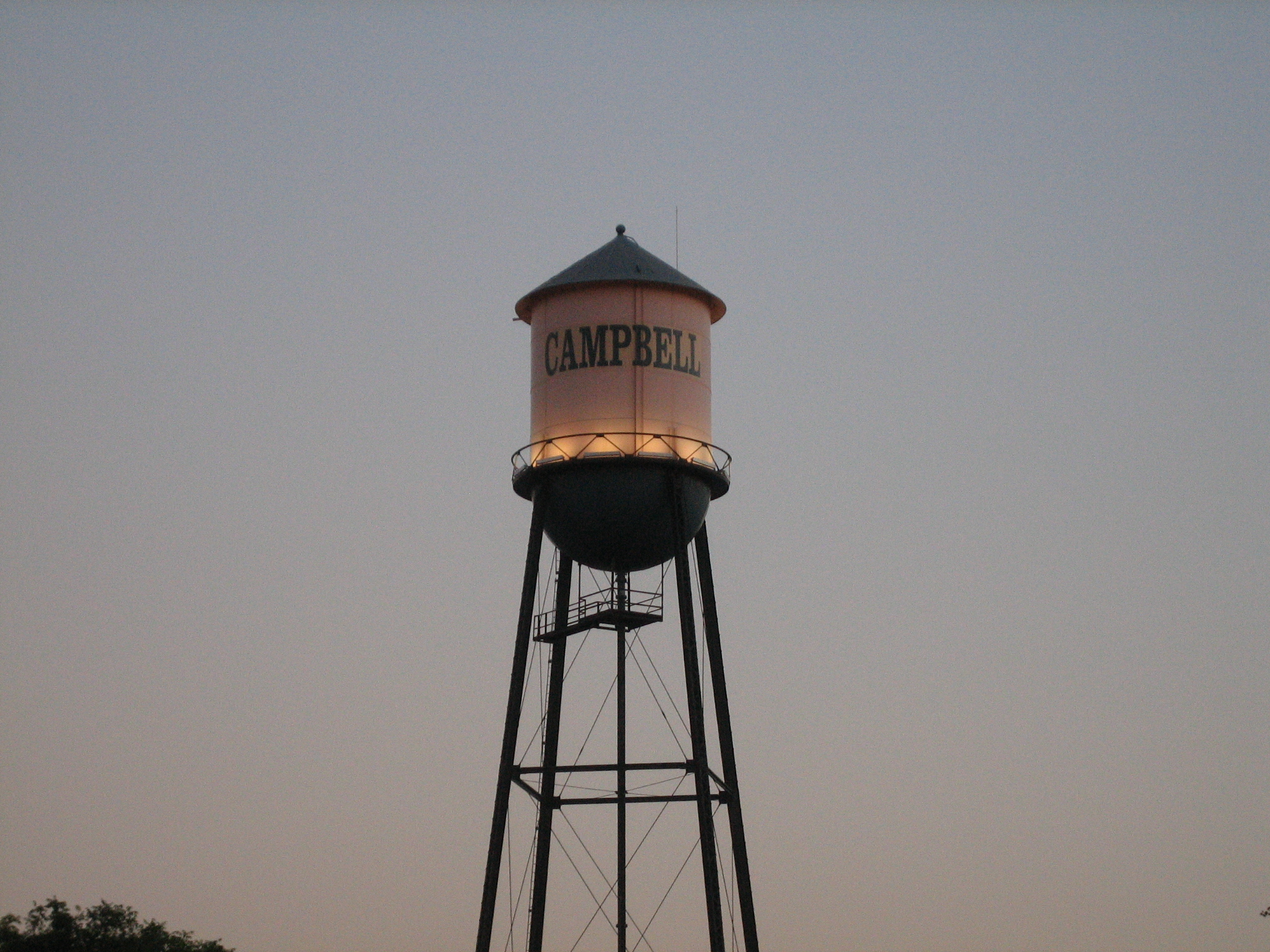 Water tower in Campbell, California, USA